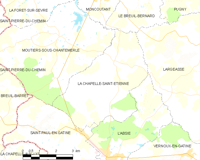 Map of French municipality La Chapelle-Saint-Étienne